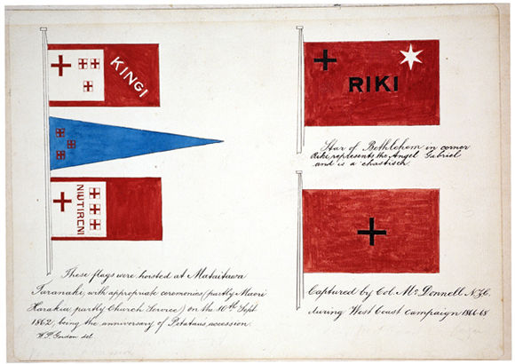 The three left flags have been used by Potatau Te Wherowhero as the first Maori King 1859. The flags have been used from 1857 on while the Maori king movement. Gordon drew the flags 1862 when he was visiting Mataitawa, Taranaki on the anniversary of Potatau's accession.